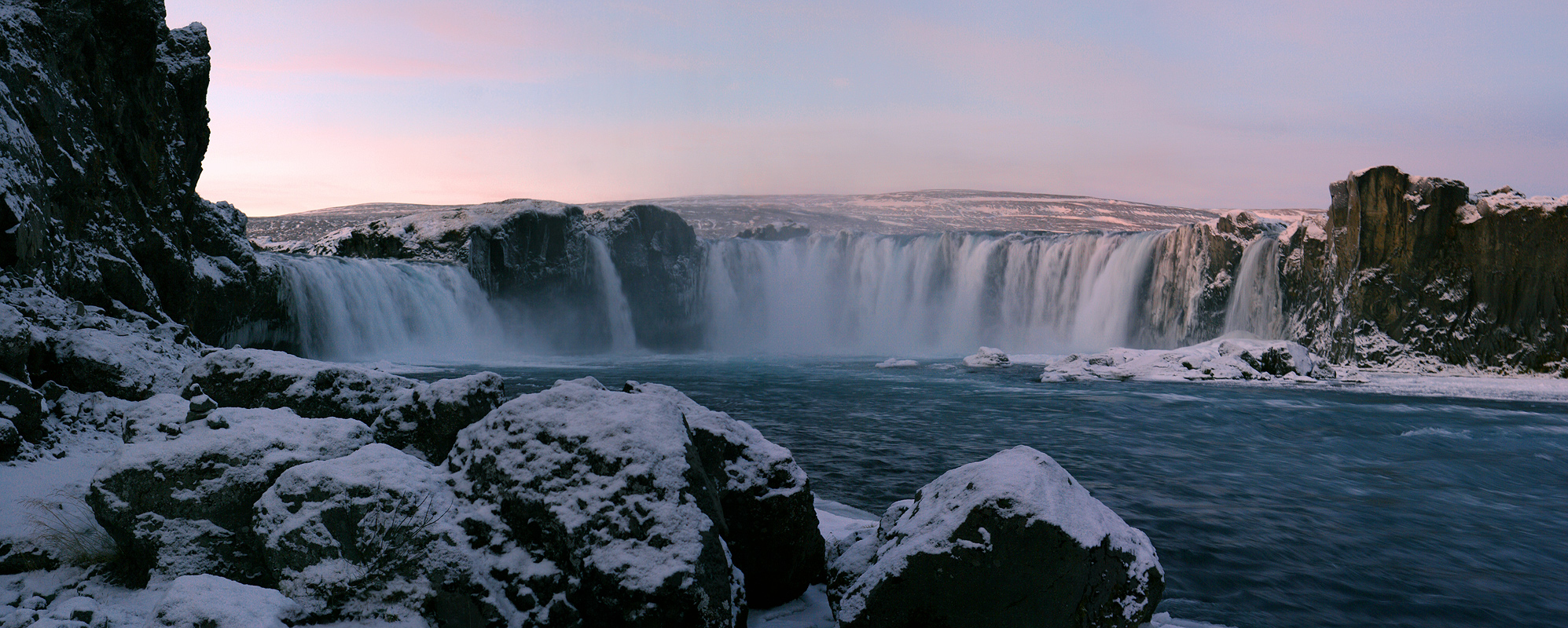 Goðafoss, November 22 10:40 Iceland, November 2007 Photo by me user:debivort (or friend, with permission given to freely license photo).